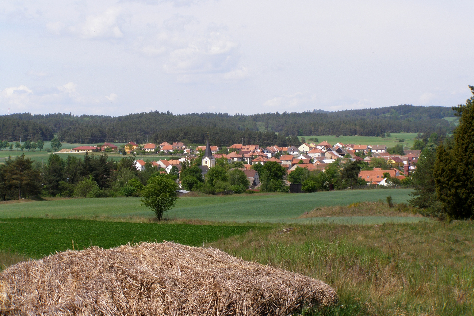 Trnava near Třebíč. Global view